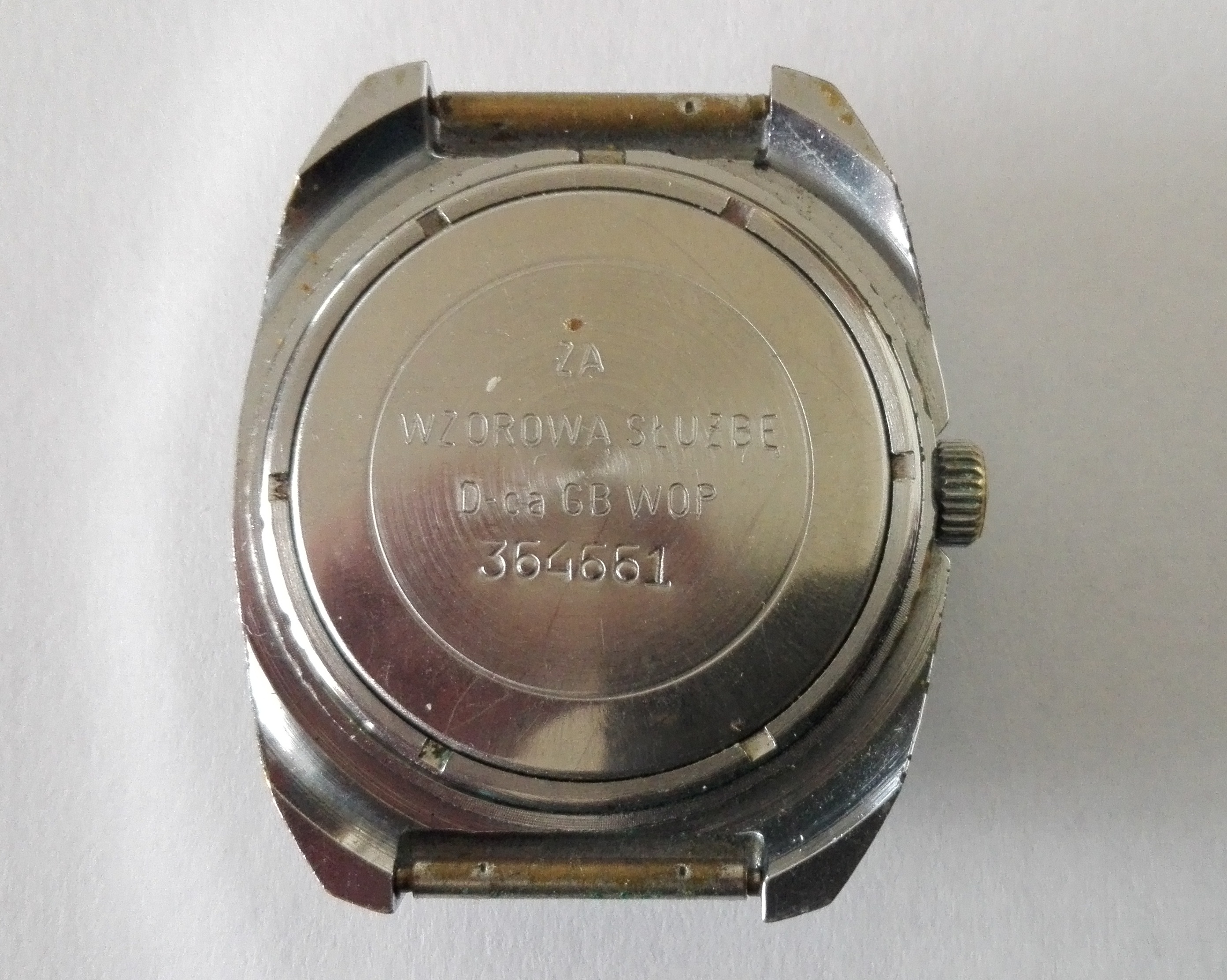 Russian watch „SLAVA“